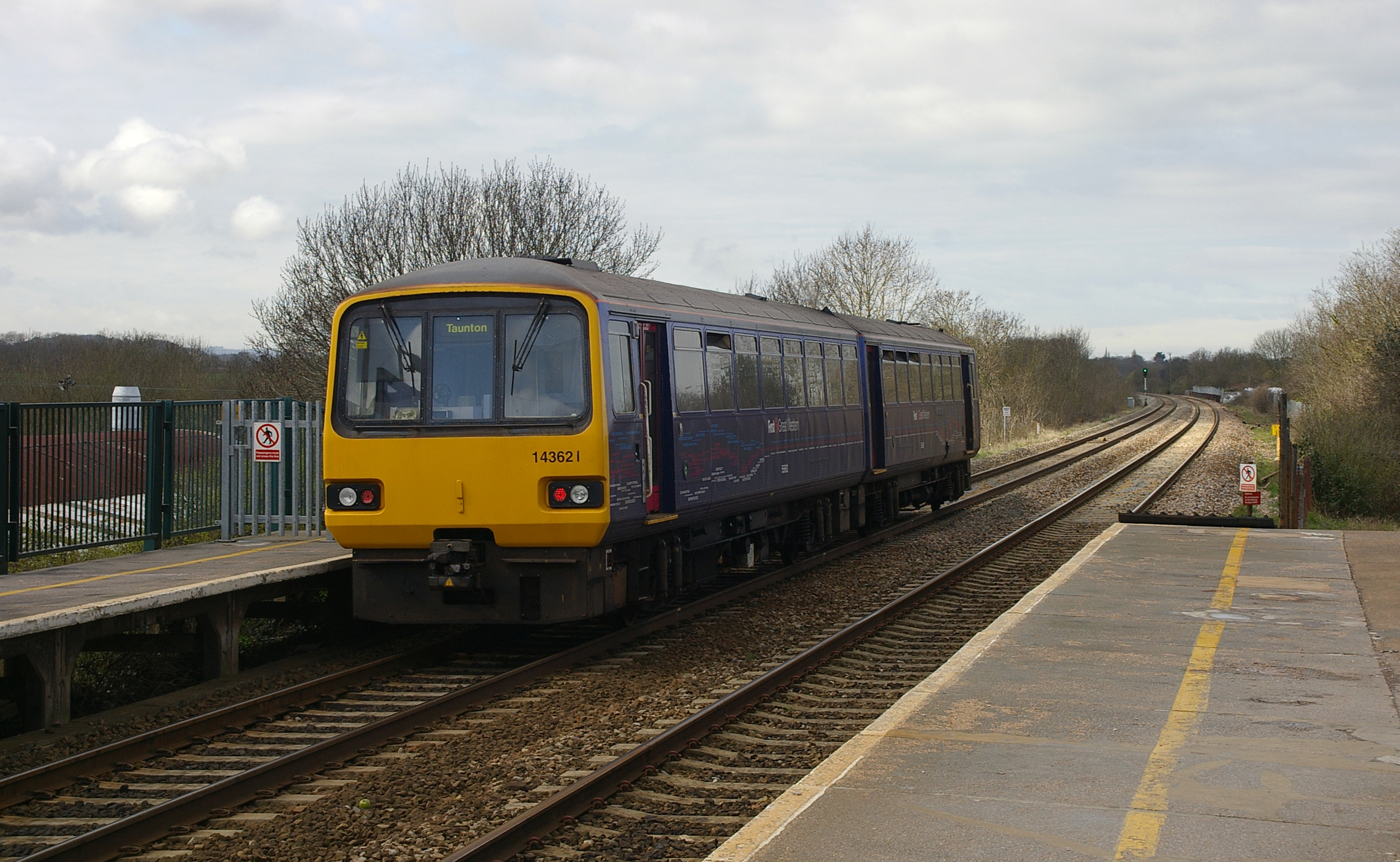 First Great Western 143621 departs Nailsea and Backwell railway station for Taunton.